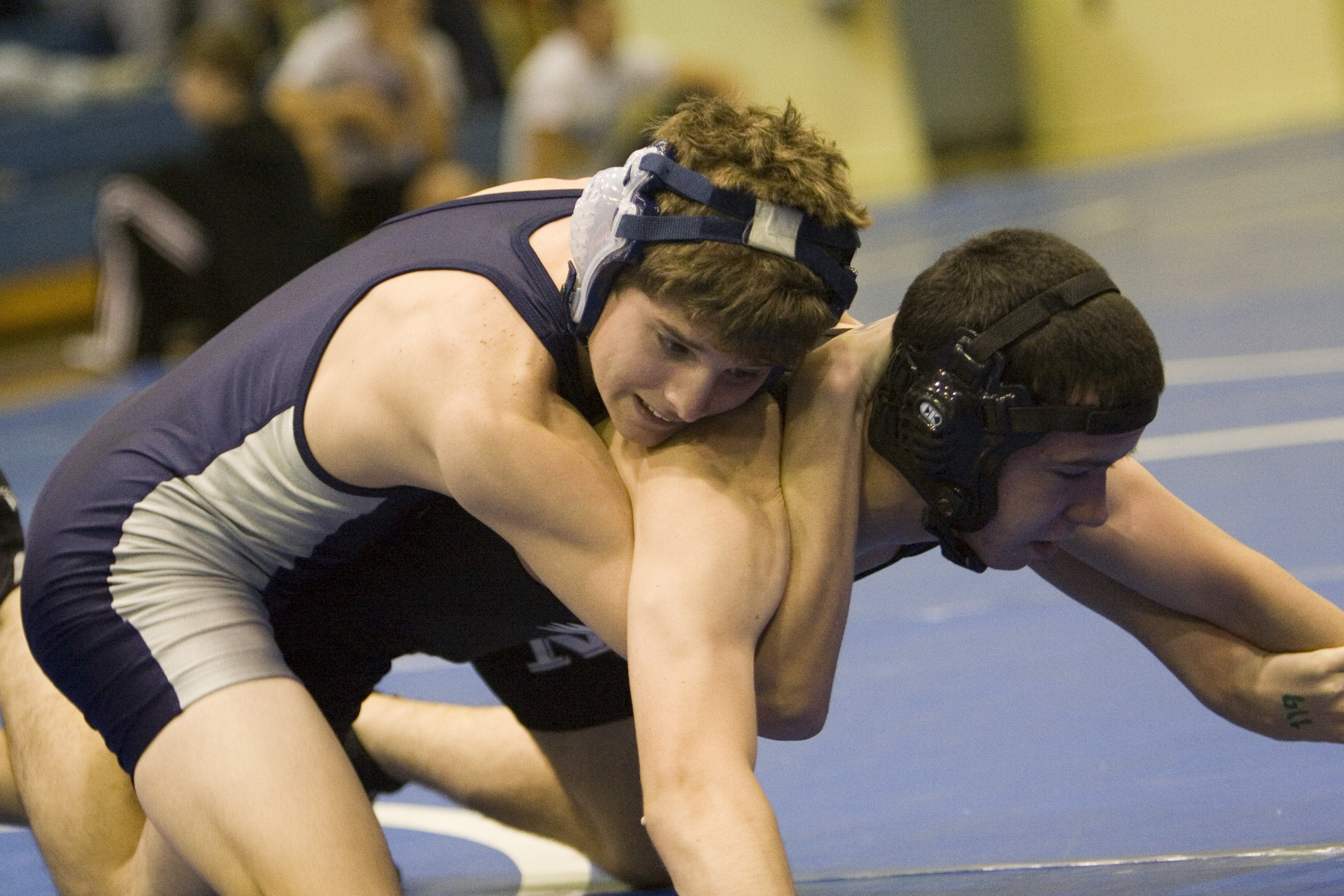 Two high school students wrestling (collegiate, scholastic, or folkstyle) in the United States. Originally uploaded by Wikiman86 on the English Wikipedia project at